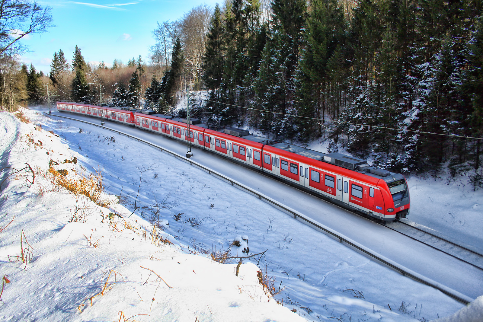 DB 423 S-Bahn Munich S8 Herrsching/Airport